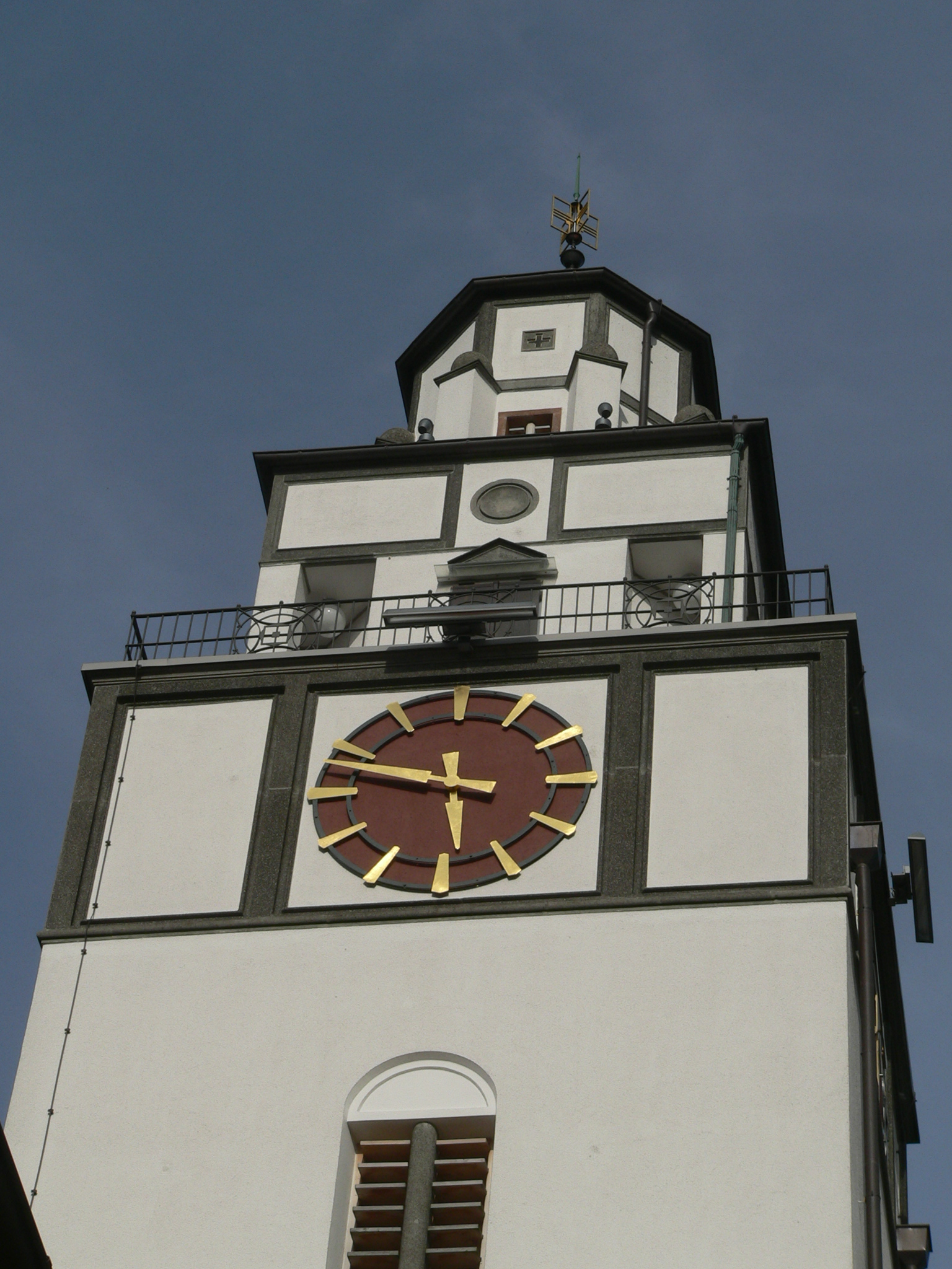 Clock of the church Evangelische Stadtkirche, Oberndorf am Neckar, Germany